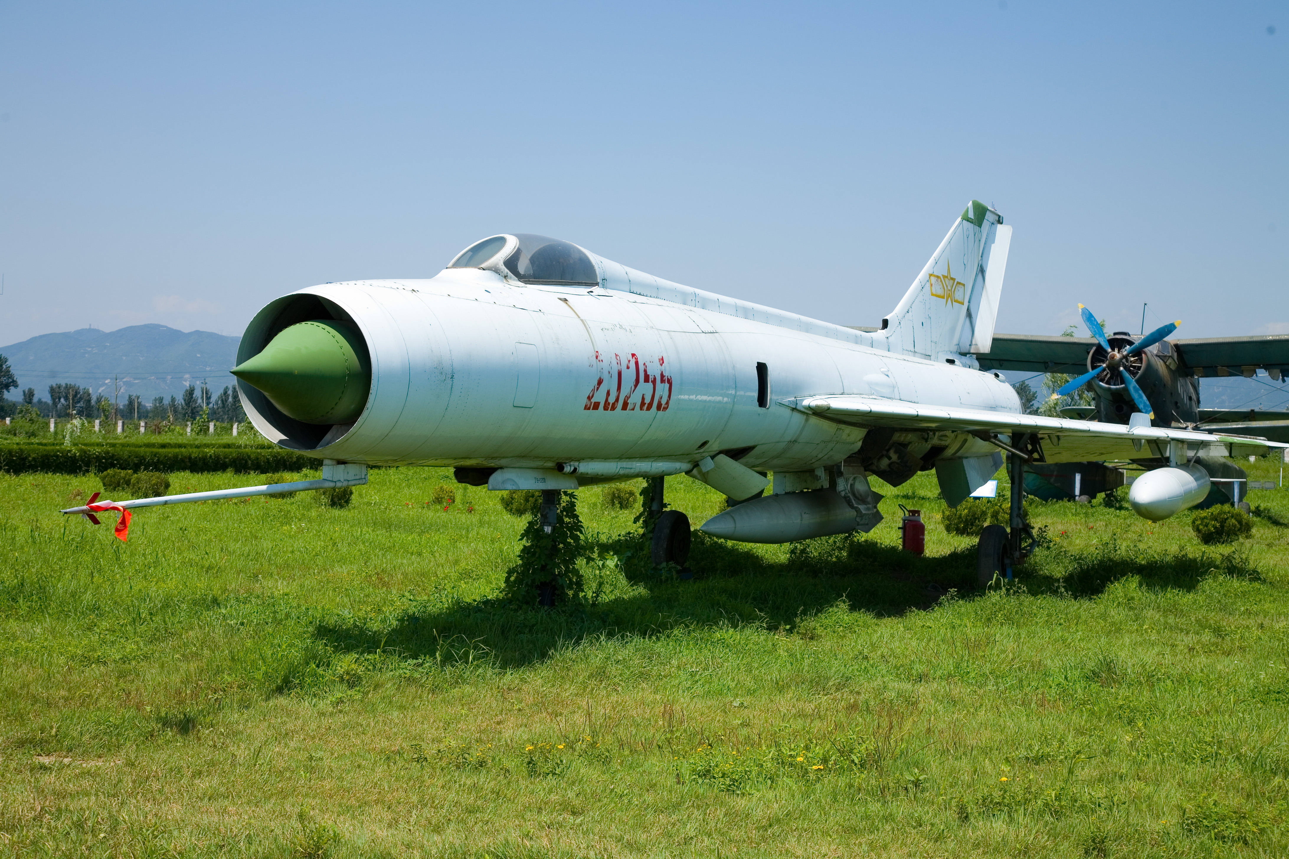 A Chinese J-8 fighter at the Aviation museum outside Beijing. This particular aircraft was previously used by the PLAAF 24th airdivision.